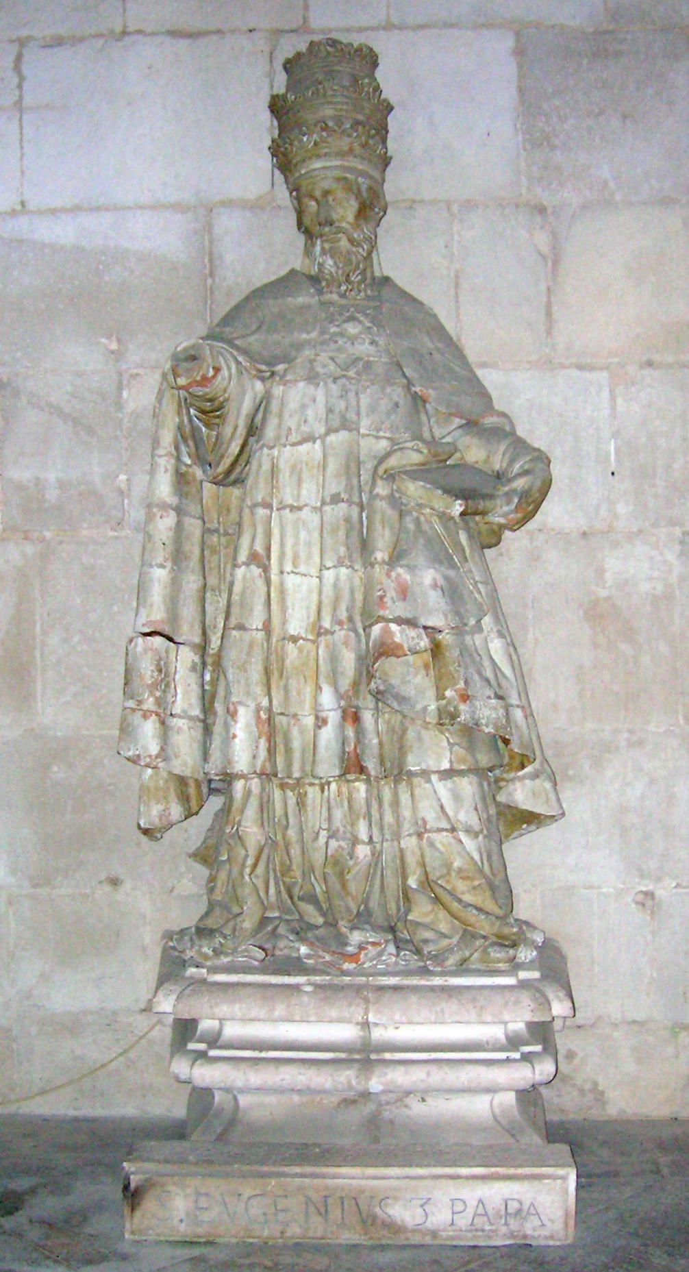 Statue of pope Eugenius III in Portugal